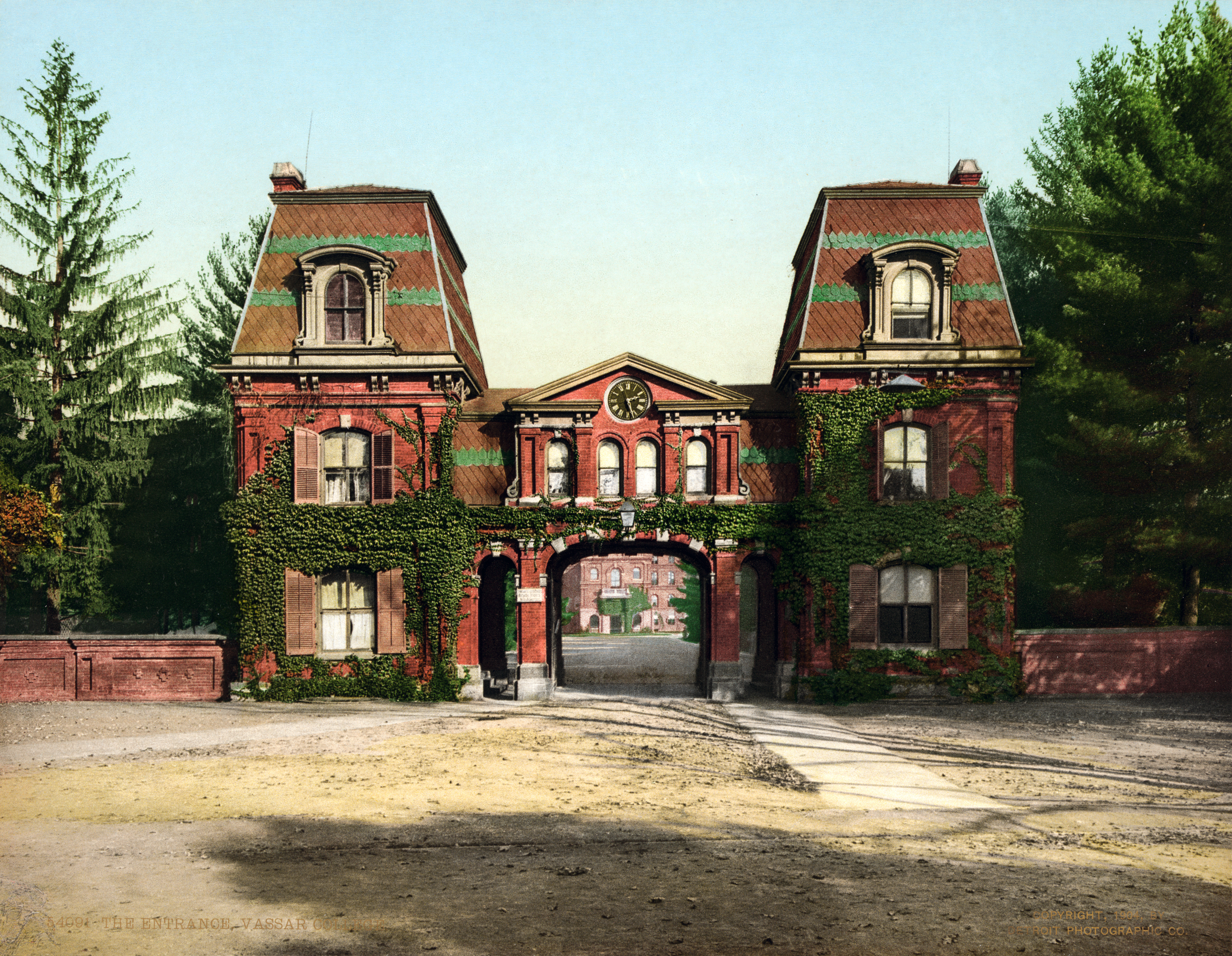 The entrance, Vassar College. 1 photomechanical print : photochrom, color.